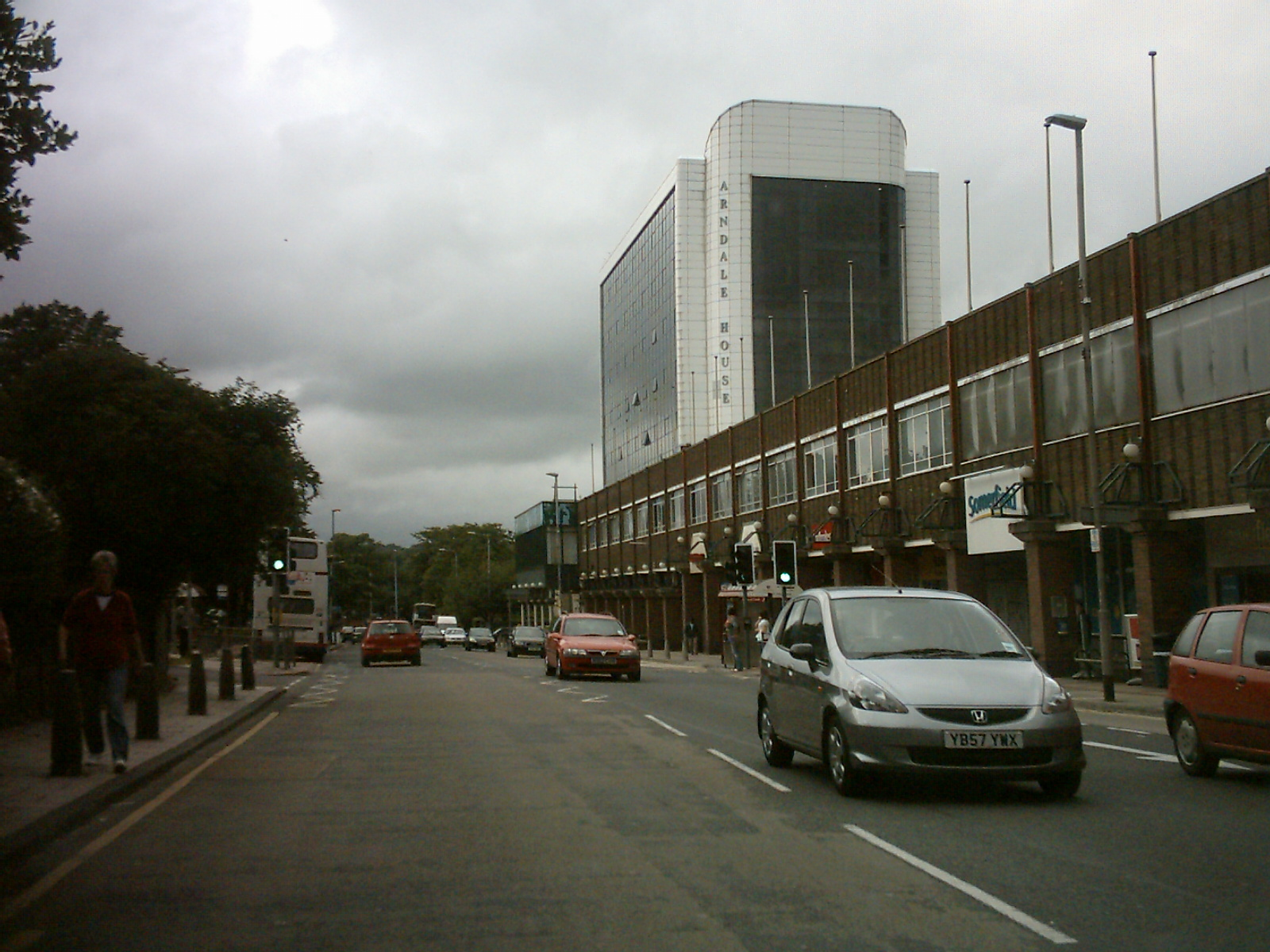 Headingley Arndale Centre.jpg